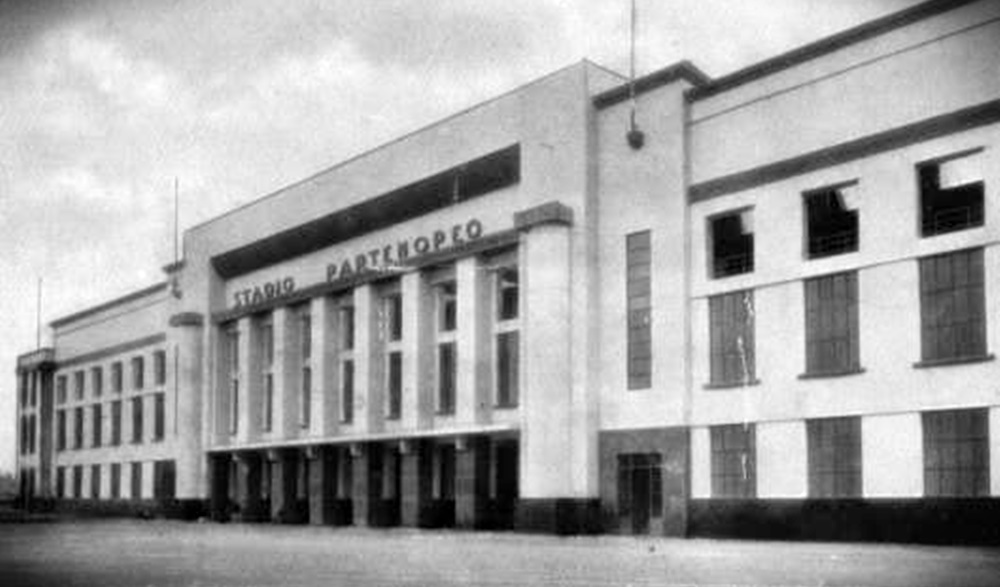 Stadium Giorgio Ascarelli, formerly known as Stadio Partenopeo and Stadio Vesuvio in Naples, Italy. The venue was built in 1930 and hosted the home matches of S.S.C. Napoli until 1942. It was amongst the venues of the 1934 FIFA World Cup held in Italy. The stadium was destroyed in 1942 by the Anglo-American bombing and there are no longer hints of its existence. The only heritage of it is the name of the district which is commonly known as "Rione Ascarelli" (Ascarelli District)